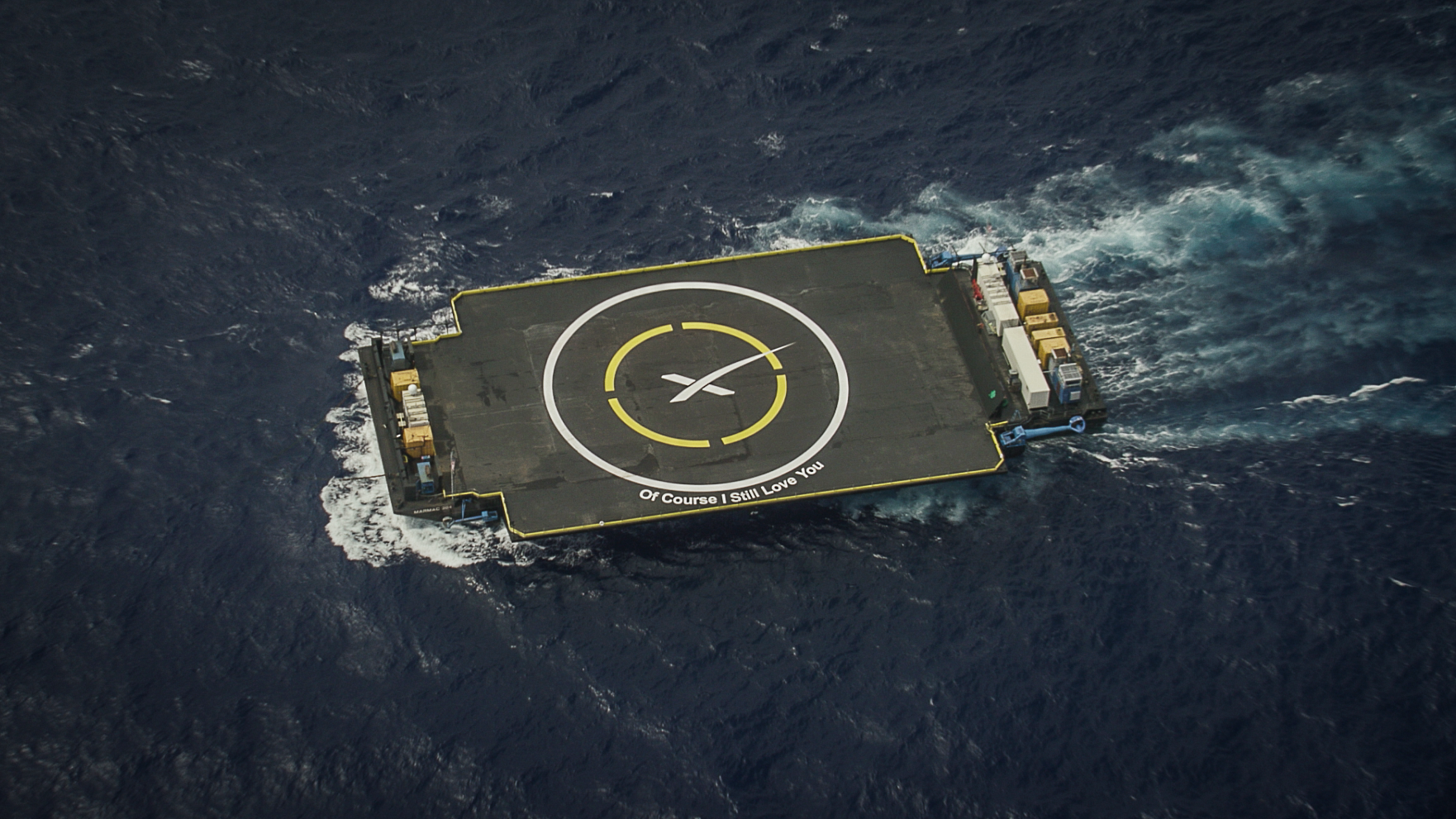 "Of Course I Still Love You" (Marmac 304) drone ship moving into position for the Sunday, June 28, 2015, SpaceX CRS-7 rocket launch and landing attempt.